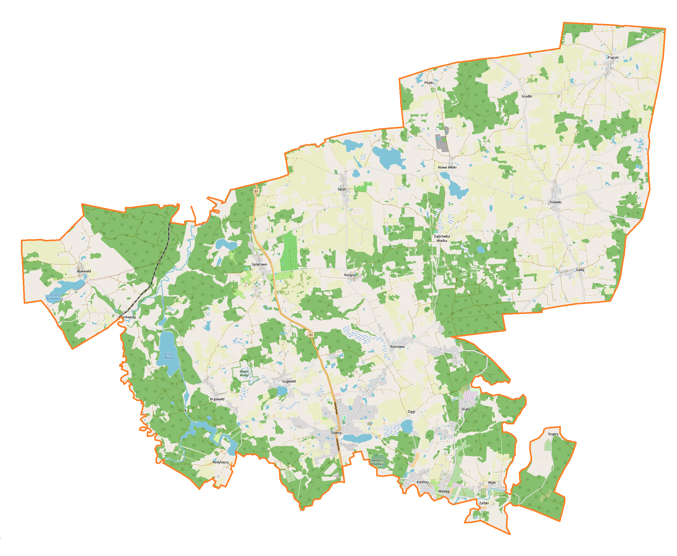 Location map